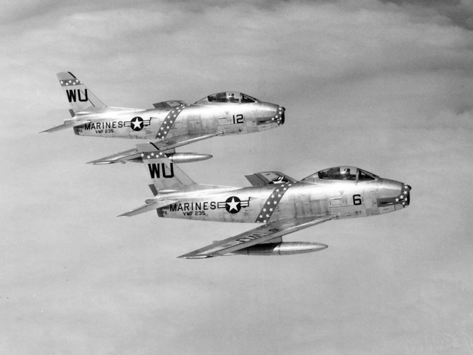 Two U.S. Marine Corps North American FJ-2 Fury aircraft of Marine Fighter Squadron VMF-235 in flight out of Marine Corps Air Station El Toro, California (USA).